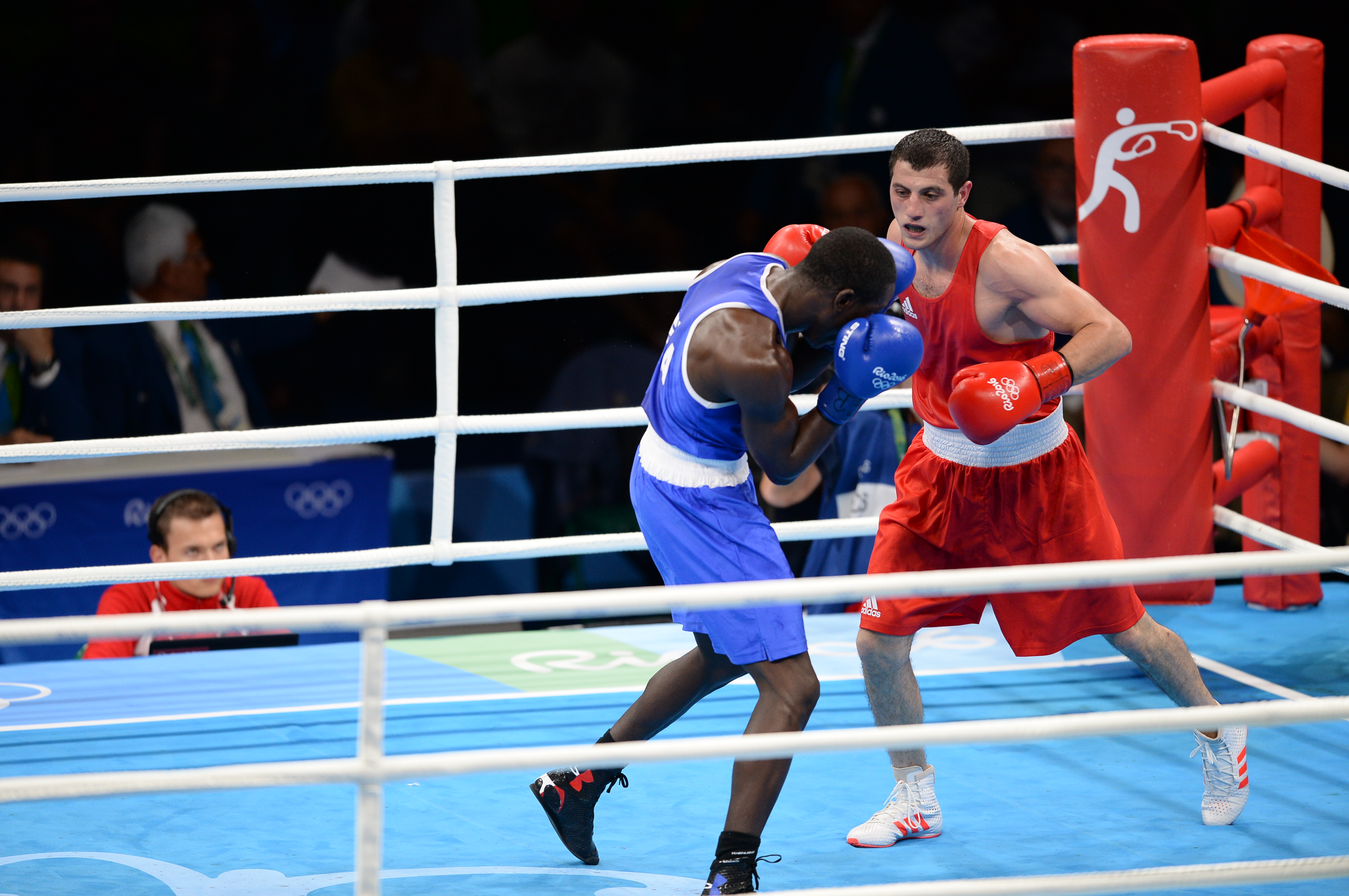 Boxing at the 2016 Summer Olympics, Baghirov vs Cissokho